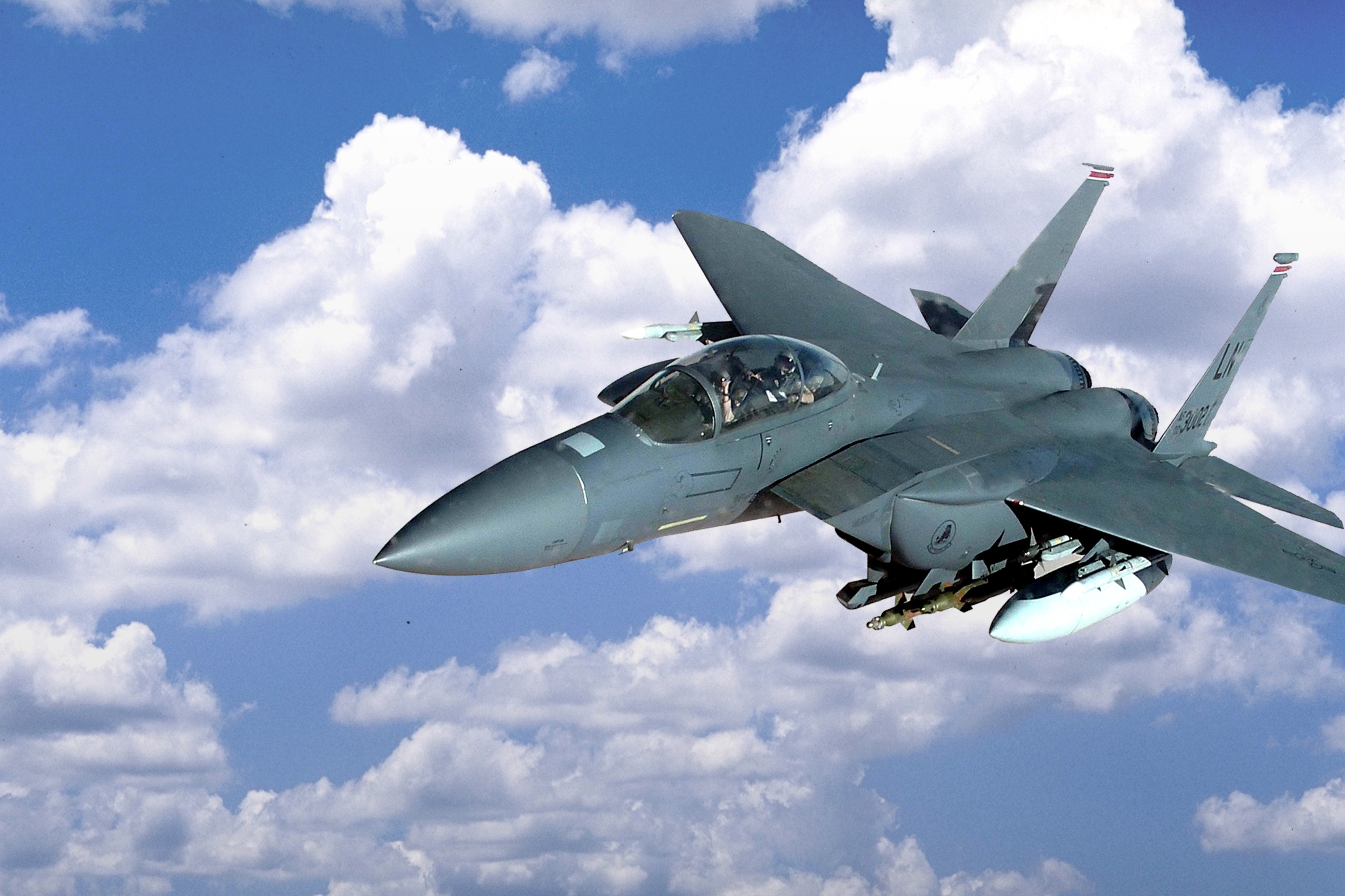 F-15E with Sniper AT pod - A F-15E Strike Eagle carries the Sniper pod as it flies during a mission in support of Operation Enduring Freedom. The Sniper pod is an advanced targeting pod with a multi-sensor system that increases the aircraft's self-targeting capability.